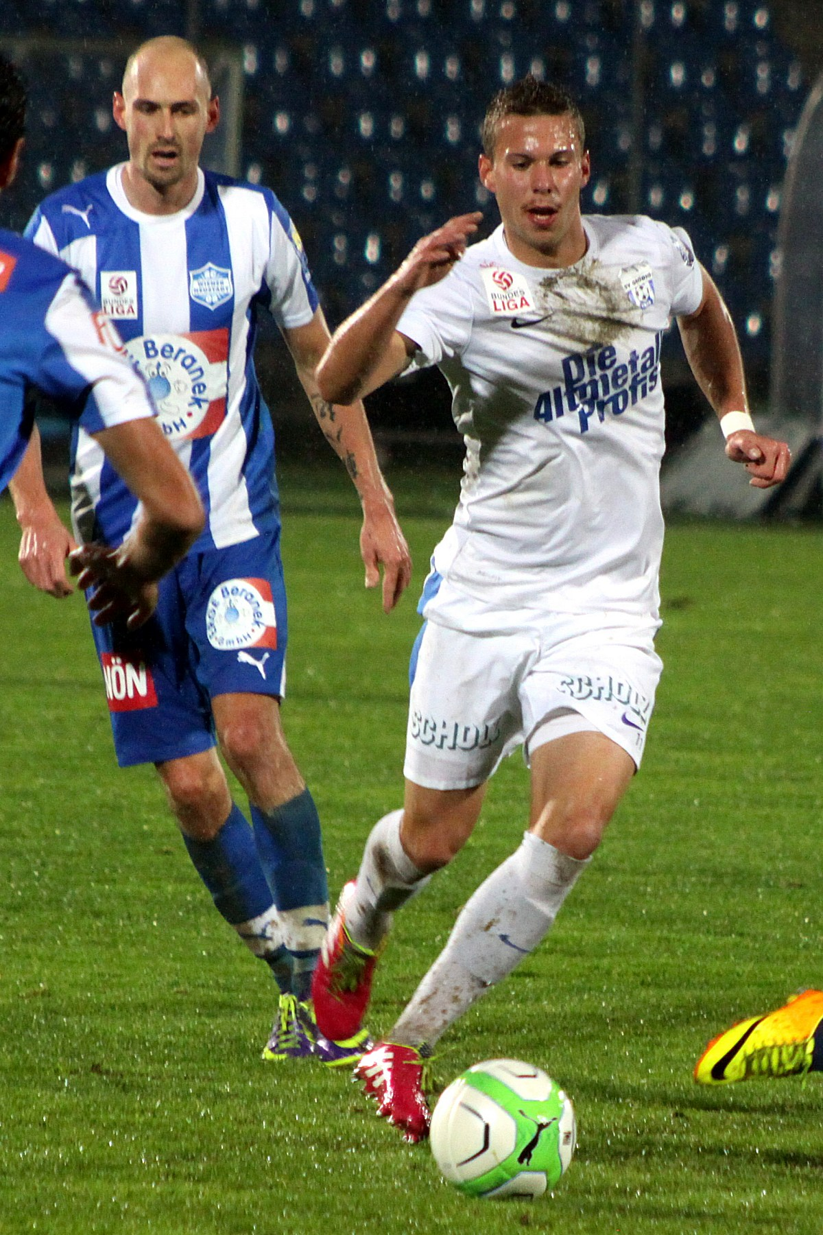 Austrian Football Bundesliga: SC Wiener Neustadt vs. SV Grödig (0:2) at 2013-11-23 in the Stadion Wiener Neustadt. – The photo shows Dennis Mimm (SC Wiener Neustadt) und Peter Tschernegg (SV Grödig).